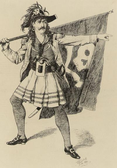 1880 drawing of Richard Temple as the Pirate King in The Pirates of Penzance. The drawing is by N Stretch, dated June 1880. It is in the collection of the National Maritime Museum, London. Signor Brocolini created the role in New York City in 1879-80.